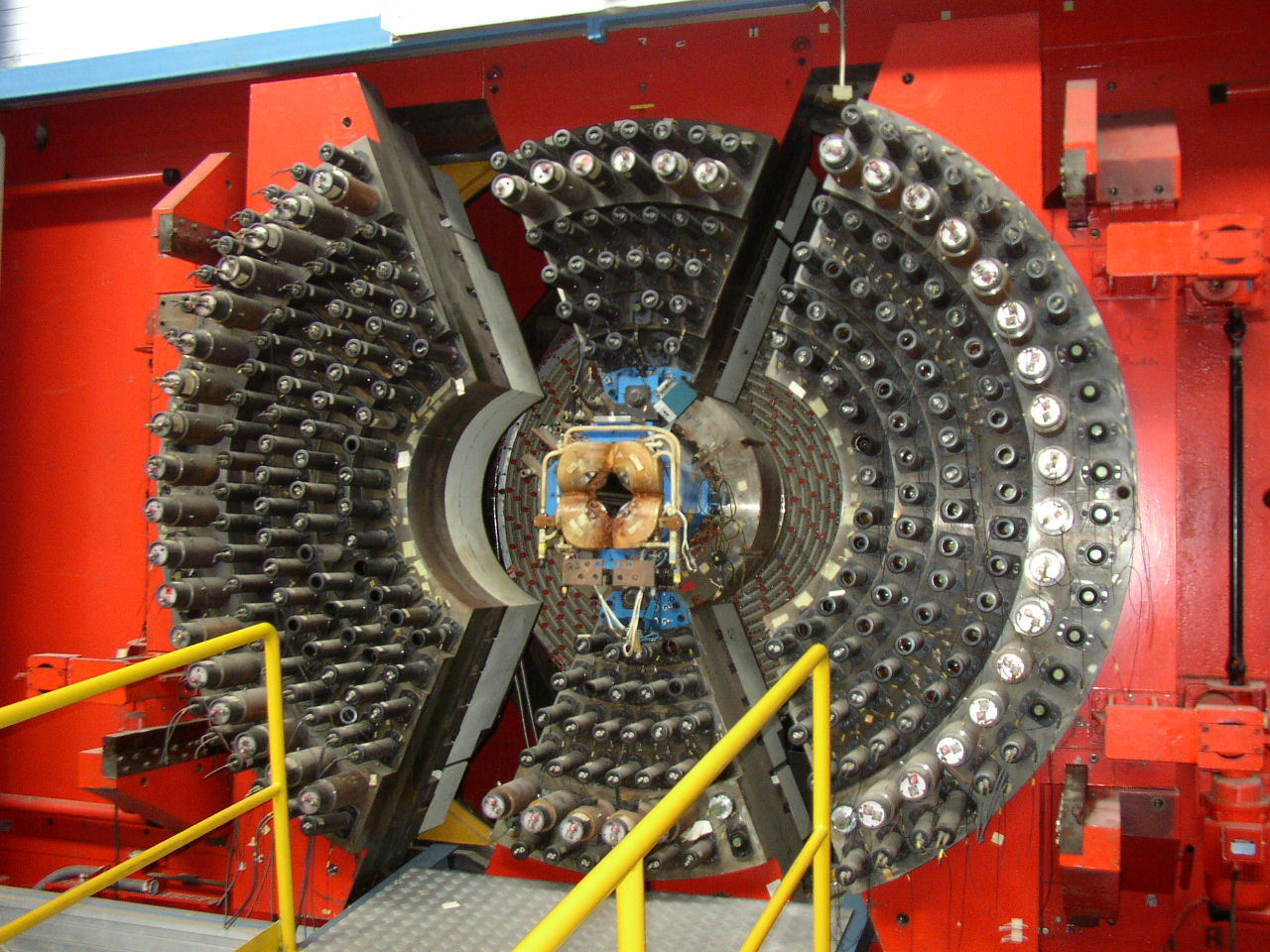 ARGUS-Detector at DESY (Deutsches Elektronen Synchrotron, "German Electron Synchrotron") in Hamburg, Germany